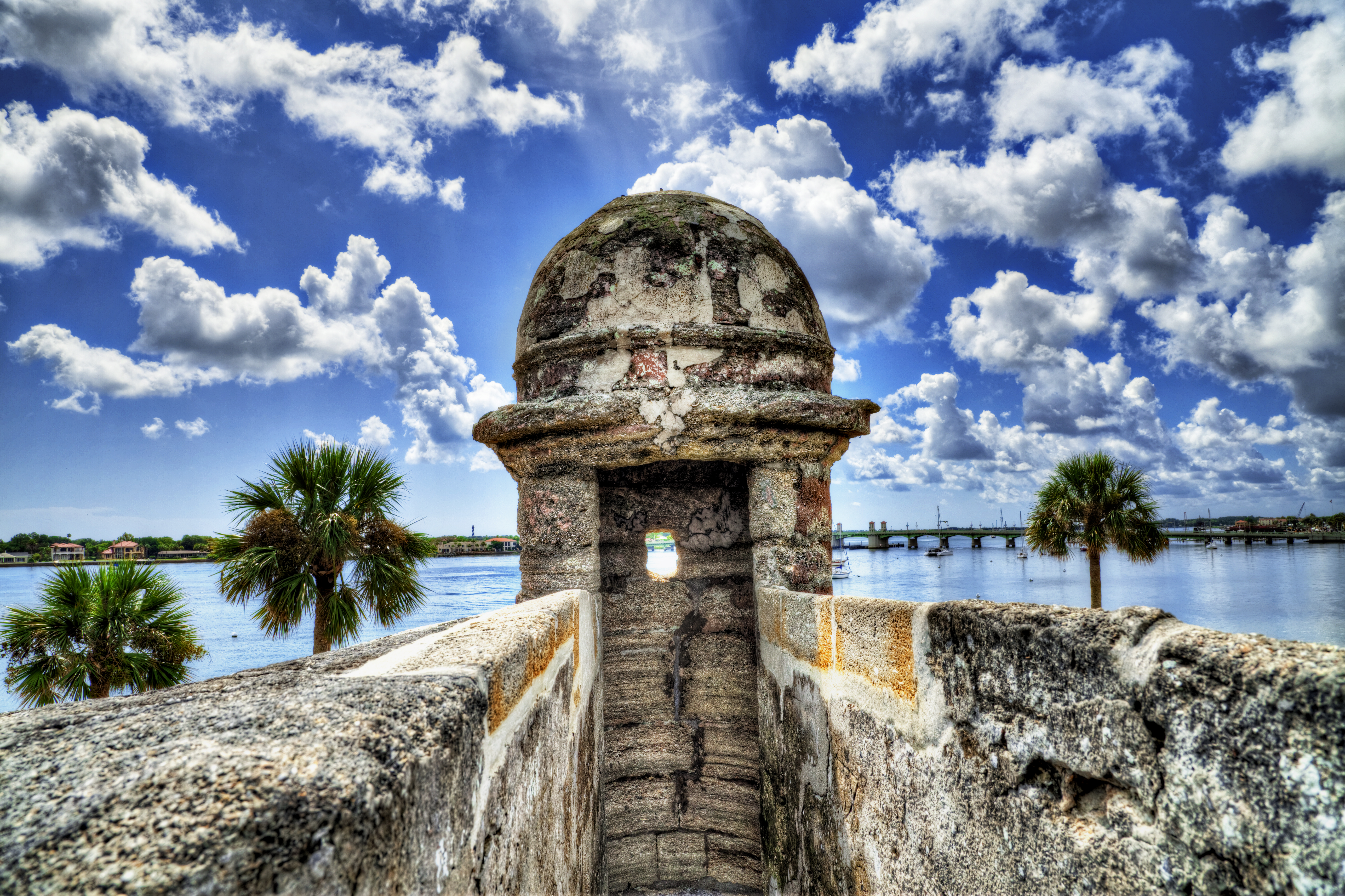 Castillo de San Marcos National Monument - a turret overlooks the Intracoastal Waterway